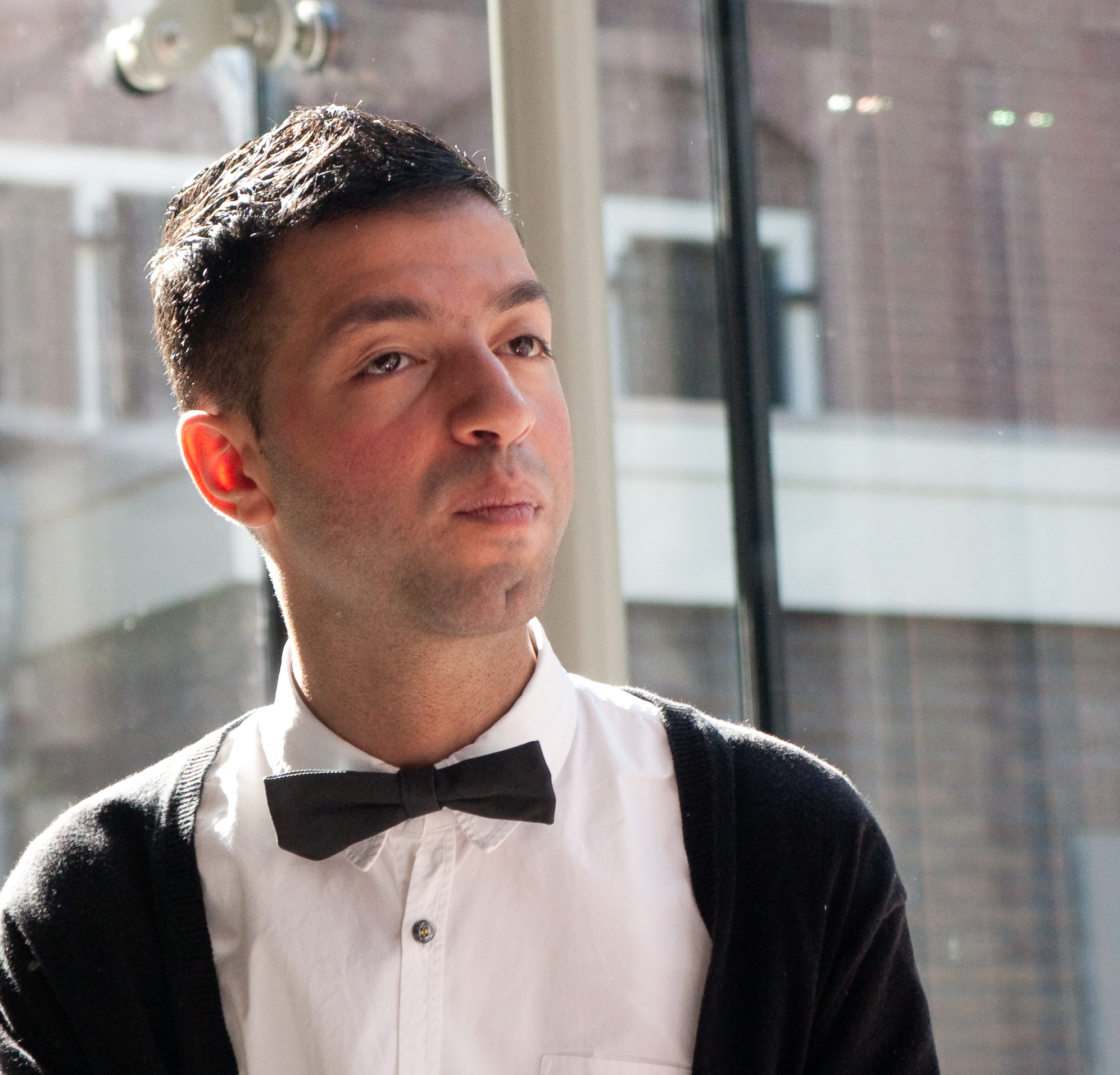 Tofik Dibi, member of the Dutch Parliament for the GreenLeft